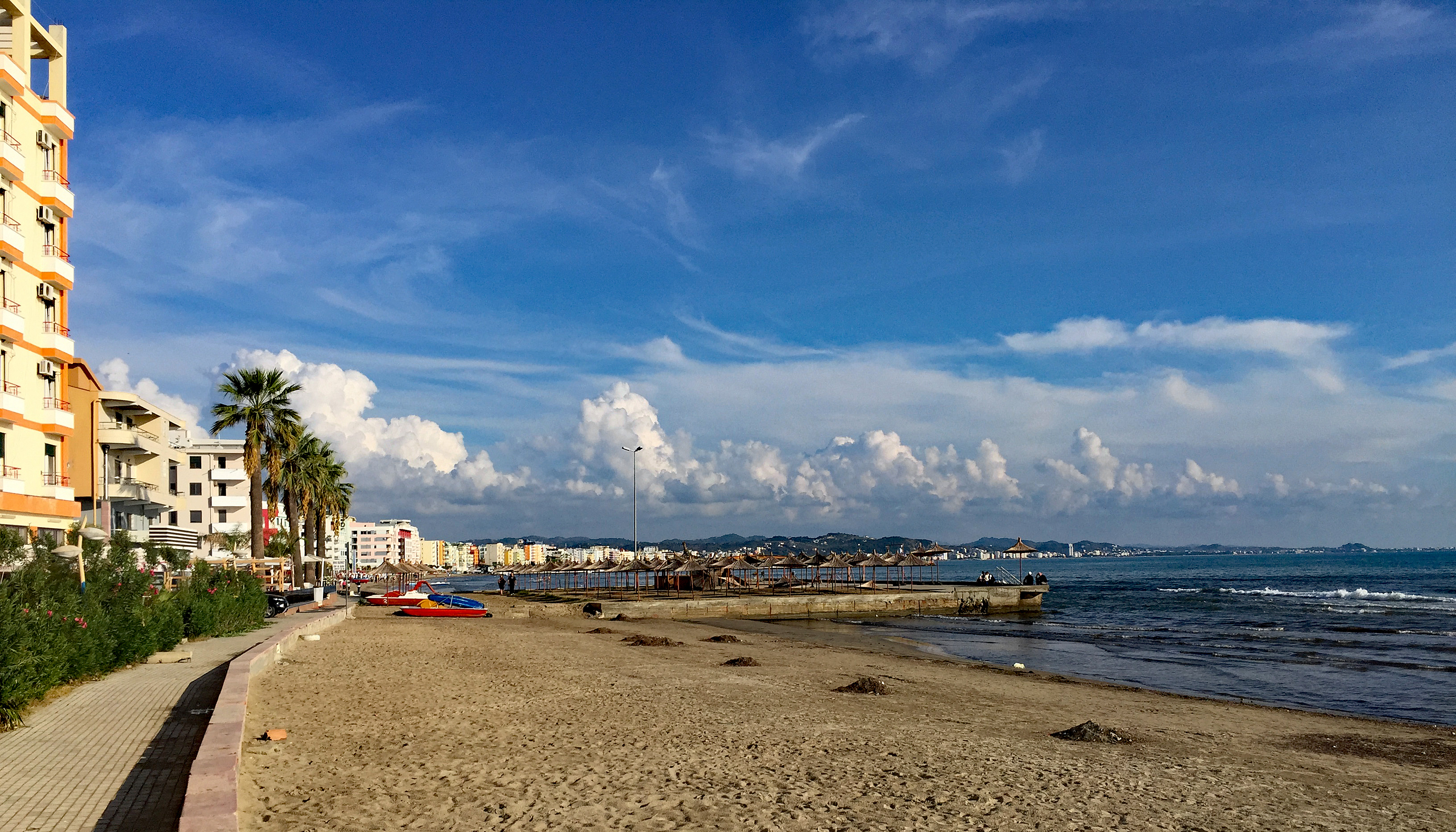 October at the beach in Durrës, Albania